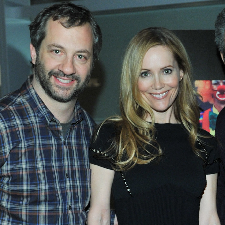 Judd Apatow & Leslie Mann & Eugene Levy at the Telefilm Canada Feature Comedy Exchange 2012.